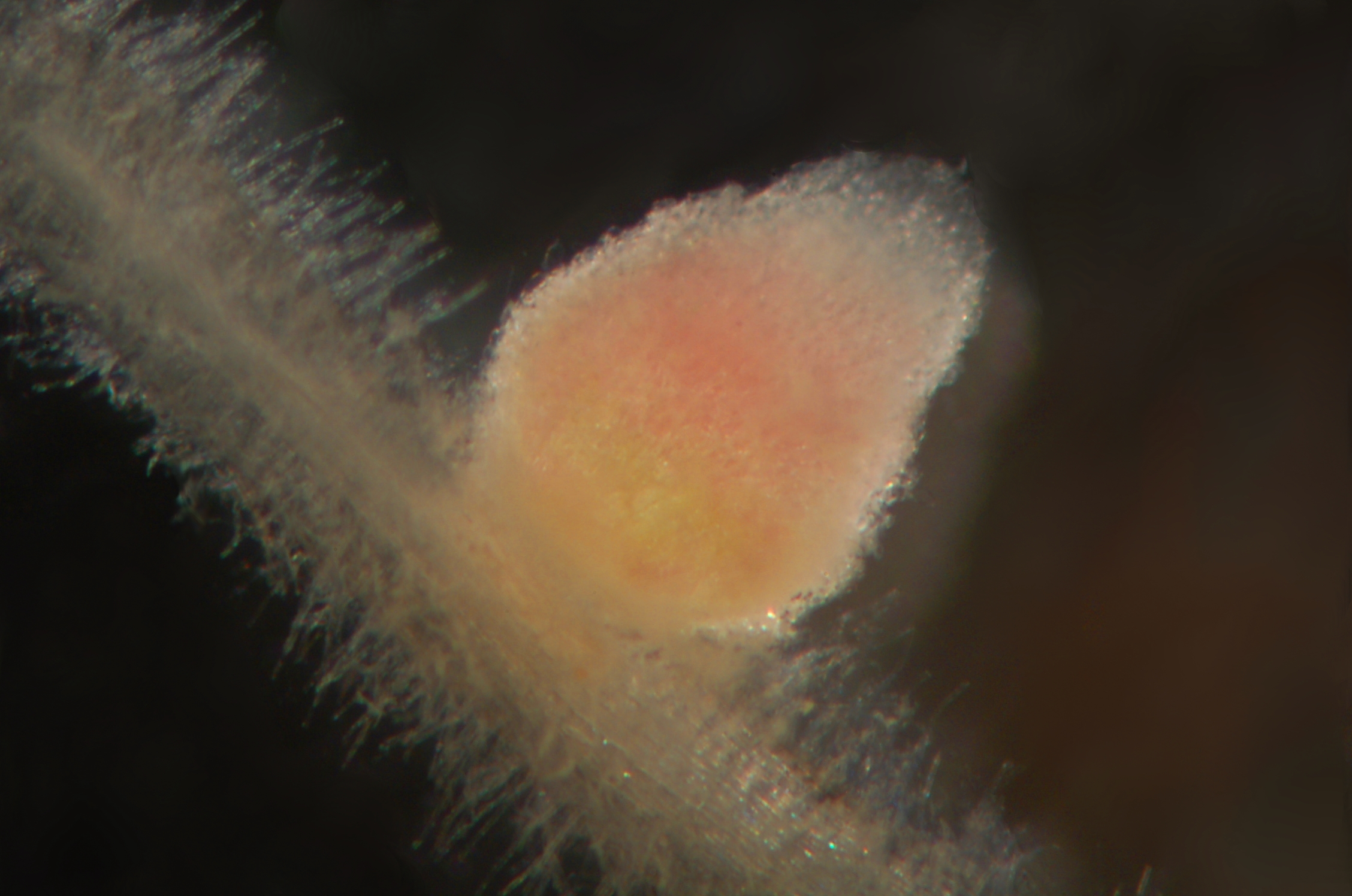 Closeup of a root nodule on a Medicago plant, inoculated with Sinorhizobium meliloti. The nodule has been cut in half and demonstrates the four zones of an indeterminate nodule.